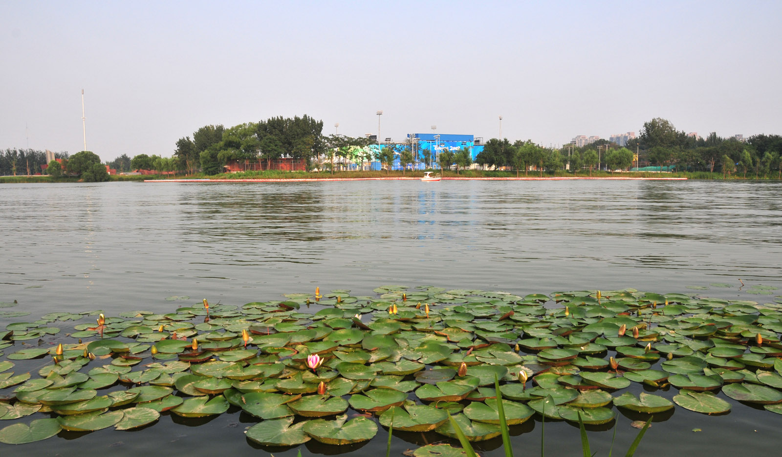 The Chaoyang Park in Beijing